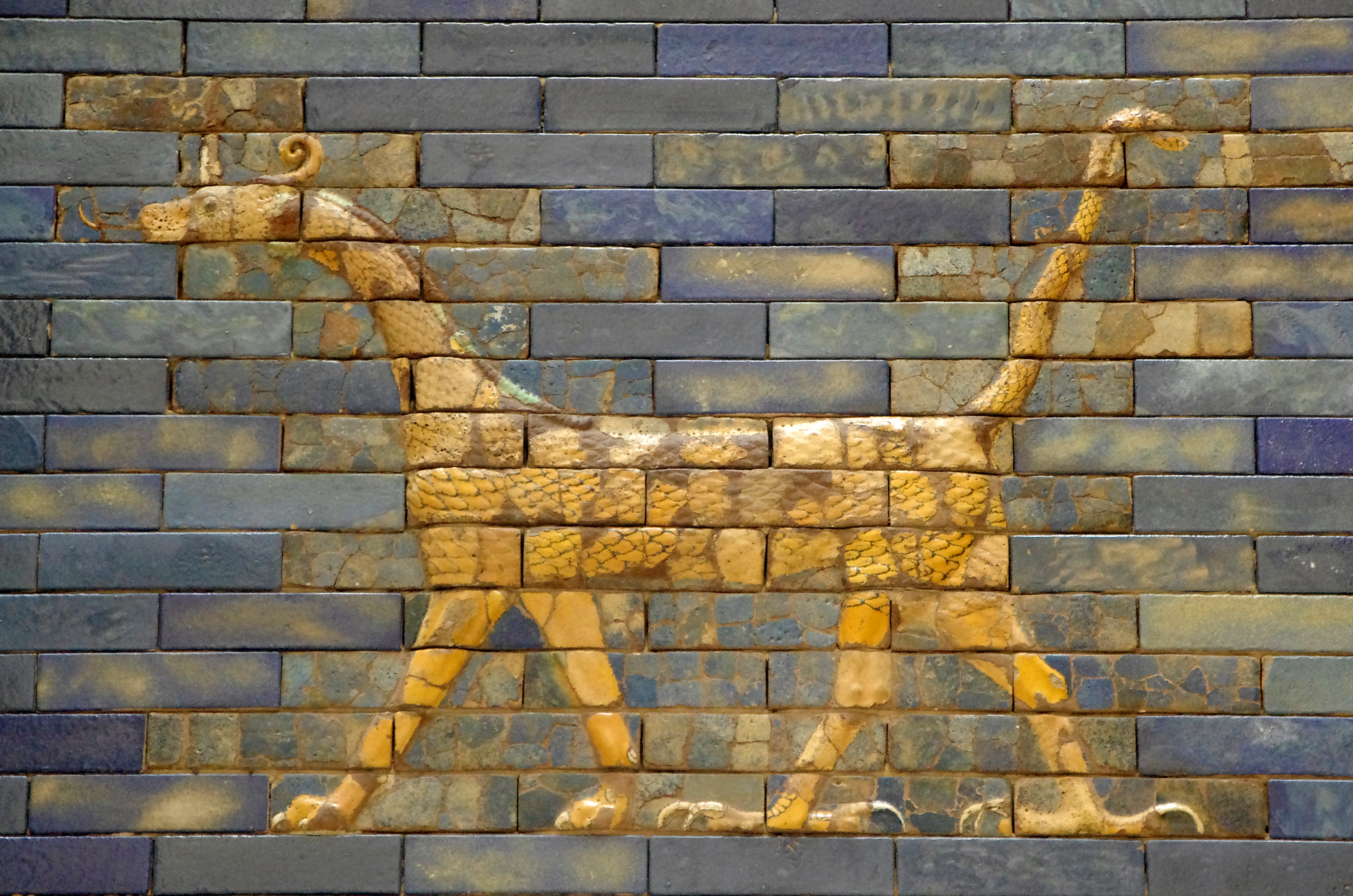 Relief of snake-dragon (Marduk's symbol) on the Ishtar Gate in Pergamon Museum, Berlin